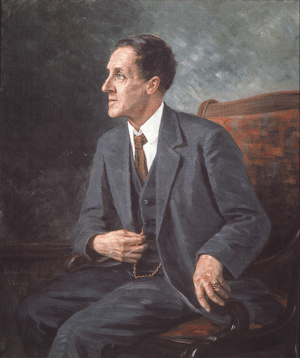 Eduard von Mayer, painted by Klara Wagner-Grosch